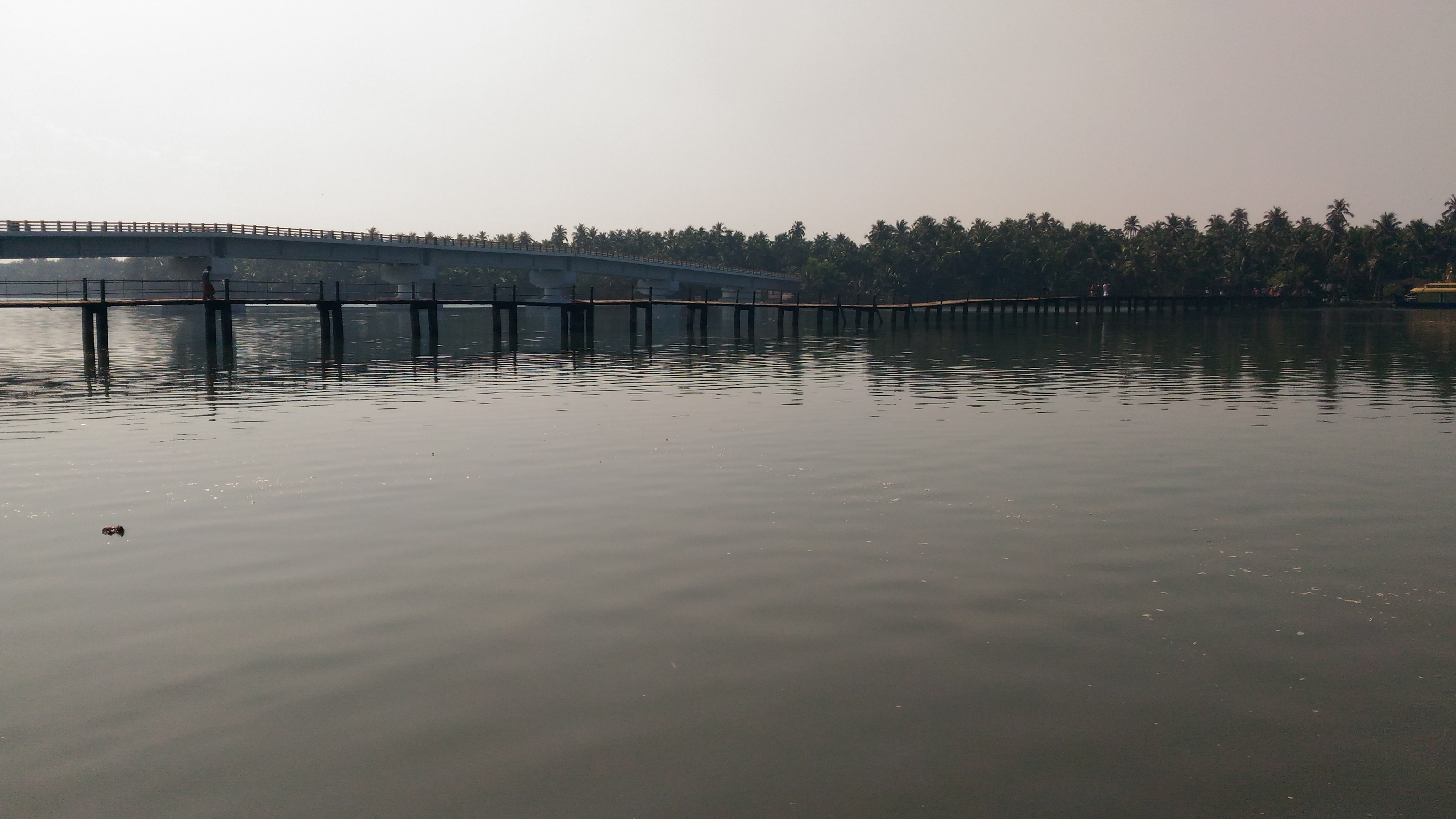 Nadappalam_walking_bridge